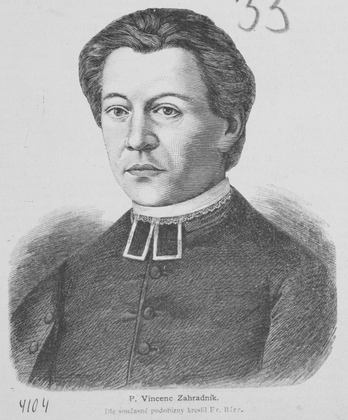 Portrait of Vincenc Zahradník (1790 - 1836), Czech priest and patriotic writer.